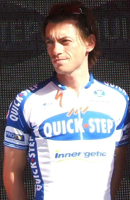 Named cyclist at the en:2009 Tour Down Under team presentation